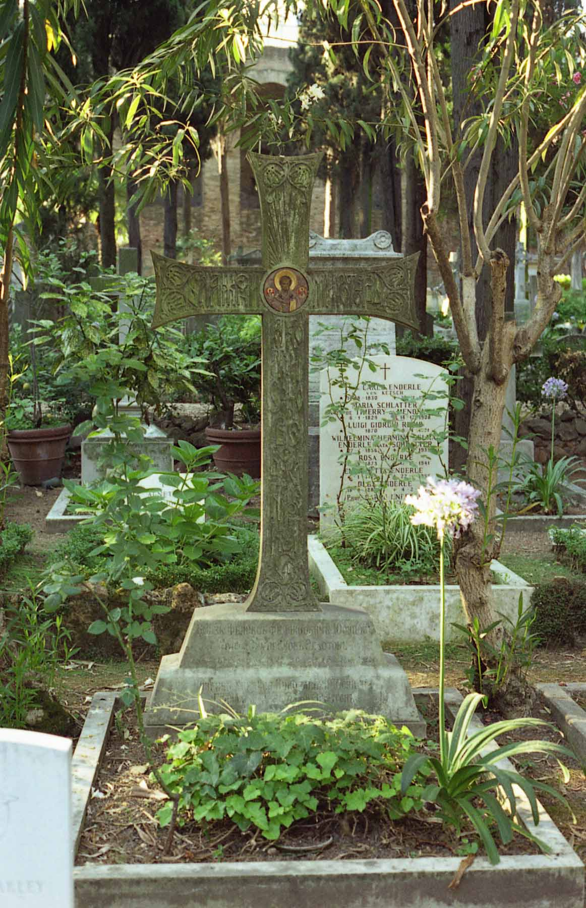 Felix Yusupov sr (1856-1928), count Sumarokov-Elston, was the father of Felix Yusupov jr, the killer of Rasputin. Here is his grave in the Cimitero acattolico, Roma.